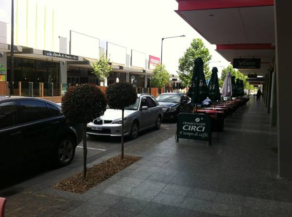 Point Cook Town Centre Cafe culture